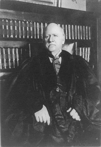 John Marshall Harlan (1833-1911); US Supreme Court Judge (1877-1911)